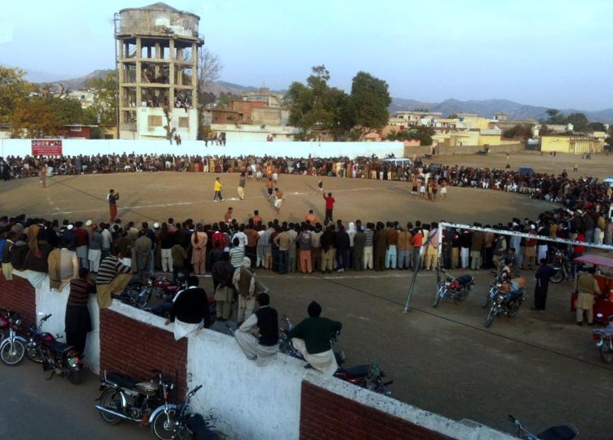 Kabaddi match is being played in Bhimber, Azad Kashmir, Pakistan